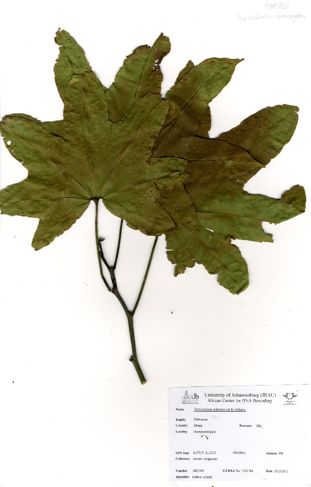 Specimen of wawa (Triplochiton scleroxylon), collected in Bia National Park, Ghana.